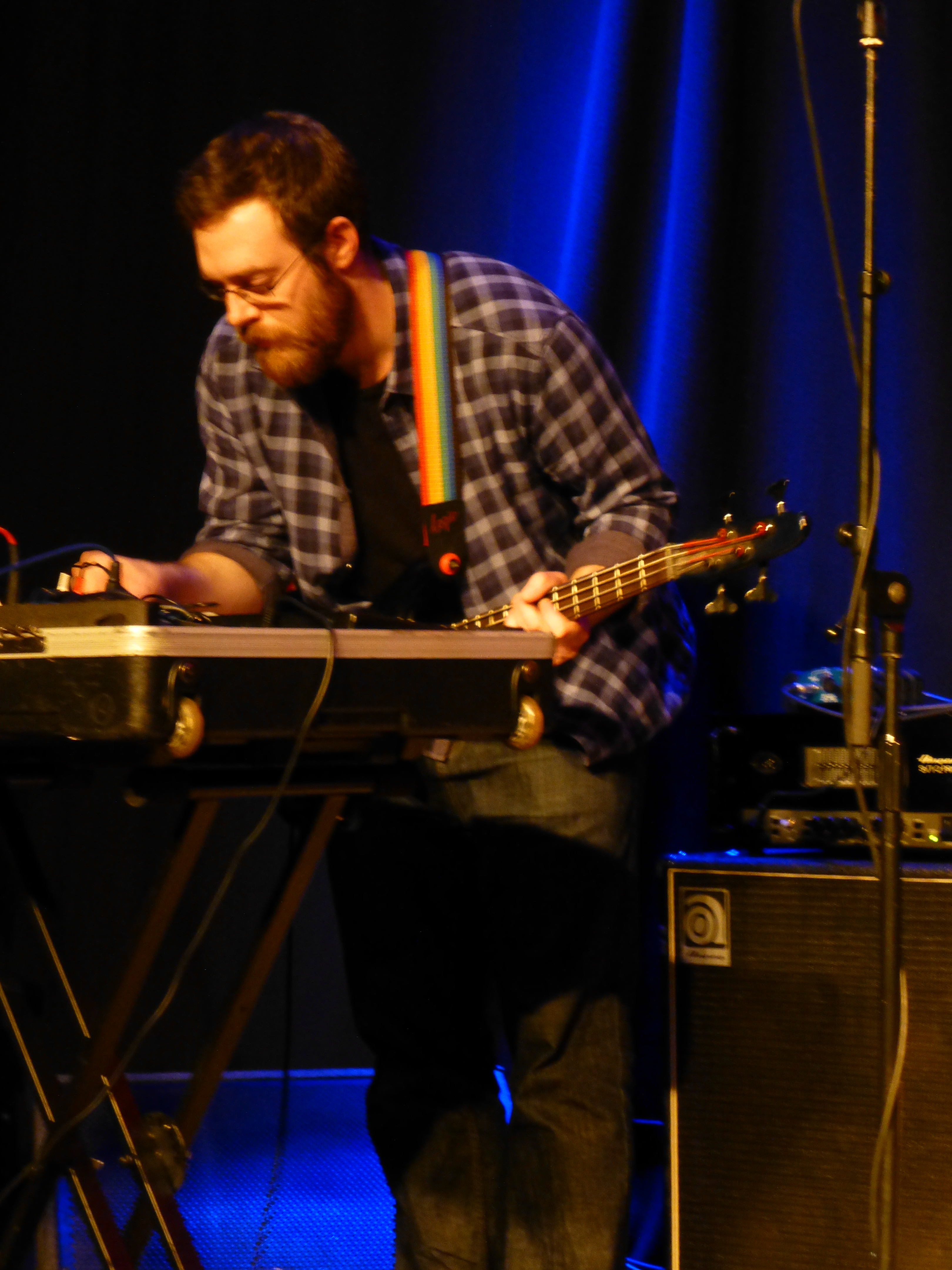 The Hidden Orchestra @ Band On The Wall, Manchester 8/3/2013